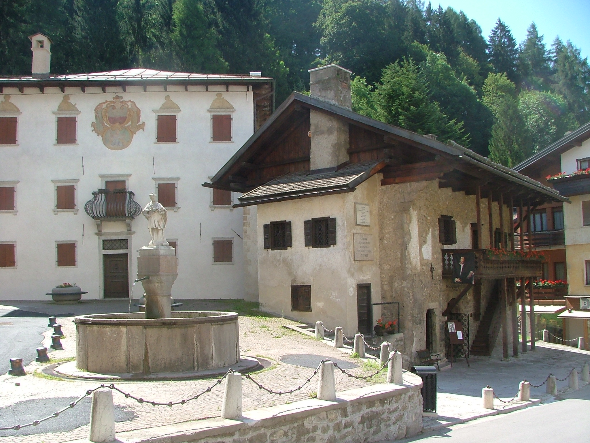 Titian native house in Pieve di Cadore, Province of Belluno, Veneto, Italy